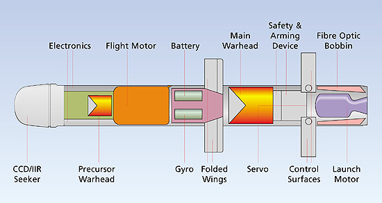 This is a cut-away diagram of a SPIKE missile, please refer to the page Spike (missile) for further details.